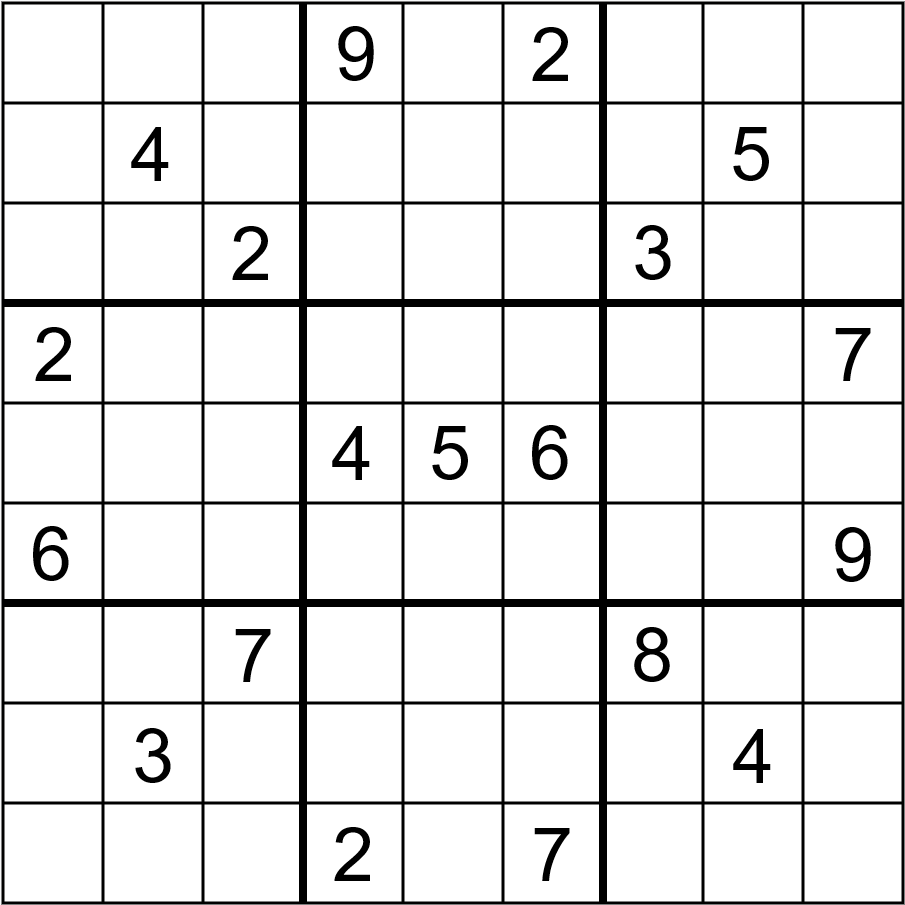 "Tourmaline" - A 19-clue sudoku puzzle with two-way orthogonal symmetry by Rico Alan.